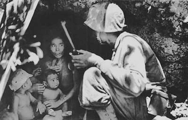 A Marine talks a terrified Chamorro woman and her children into leaving her refuge. The Marine pictured in this image is Lt. Robert B. Sheeks, who served as an Intelligence and Japanese Language Officer throughout the Pacific campaigns. More about him and his wartime experience can be read about in the book, "Pacific Legacy" by Rex Alan Smith and Gerald A. Meehl. Also a new book "One Marine's War" by Gerald A. Meehl.This image was first published in the October 1944 issue of National Geographic magazine. It was later used in the book FOLLOW ME! The Story of the Second Marine Division by Richard Johnston (Random House 1948).